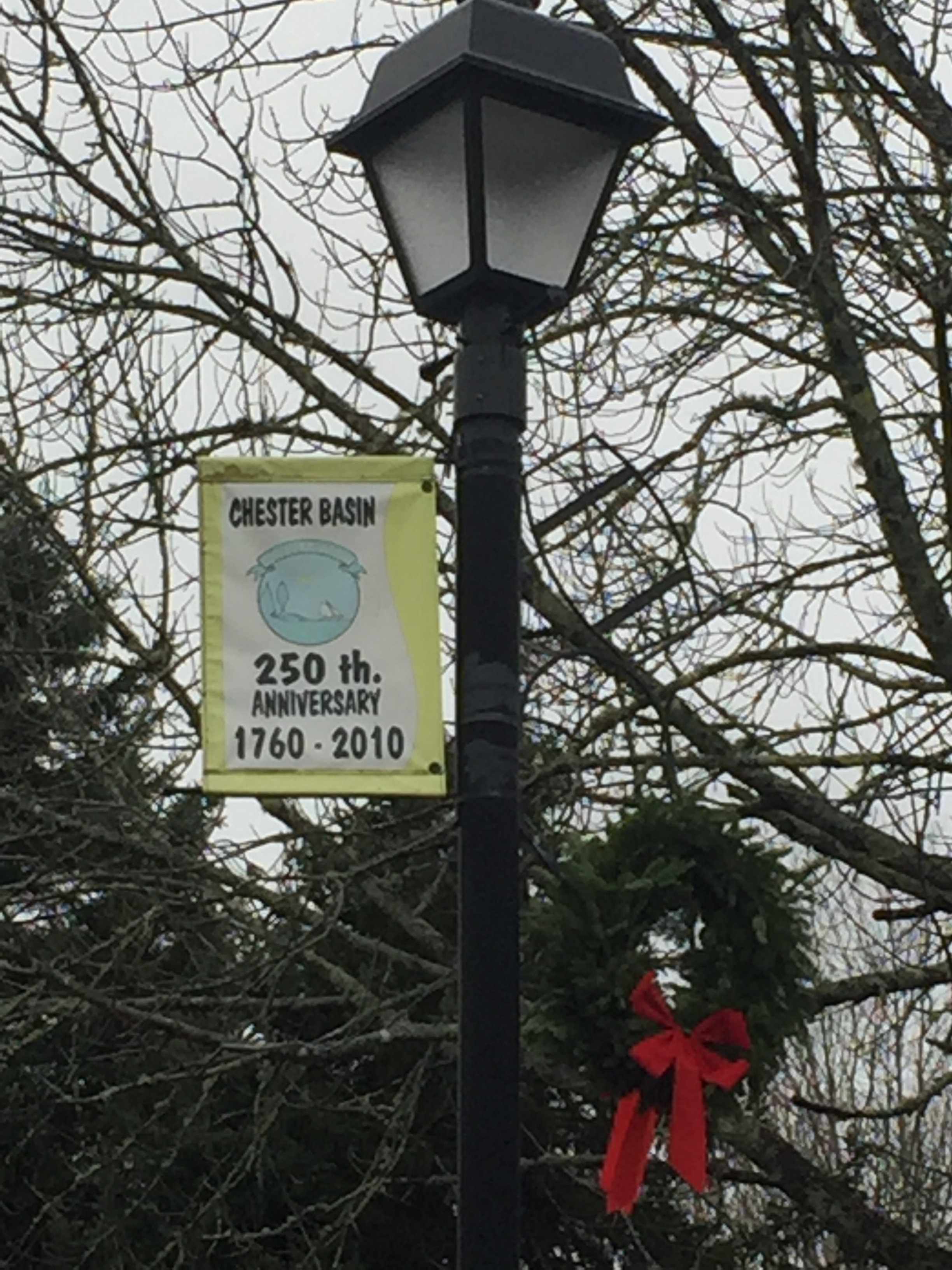 250th Anniversary banner for Chester Basin